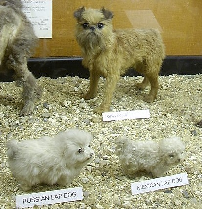 Summary Author: Sarah Hartwell (Messybeast). Own work. Taxidermy of Russian and Mexican Lapdogs at Rothschild Zoological Museum, Tring, England.